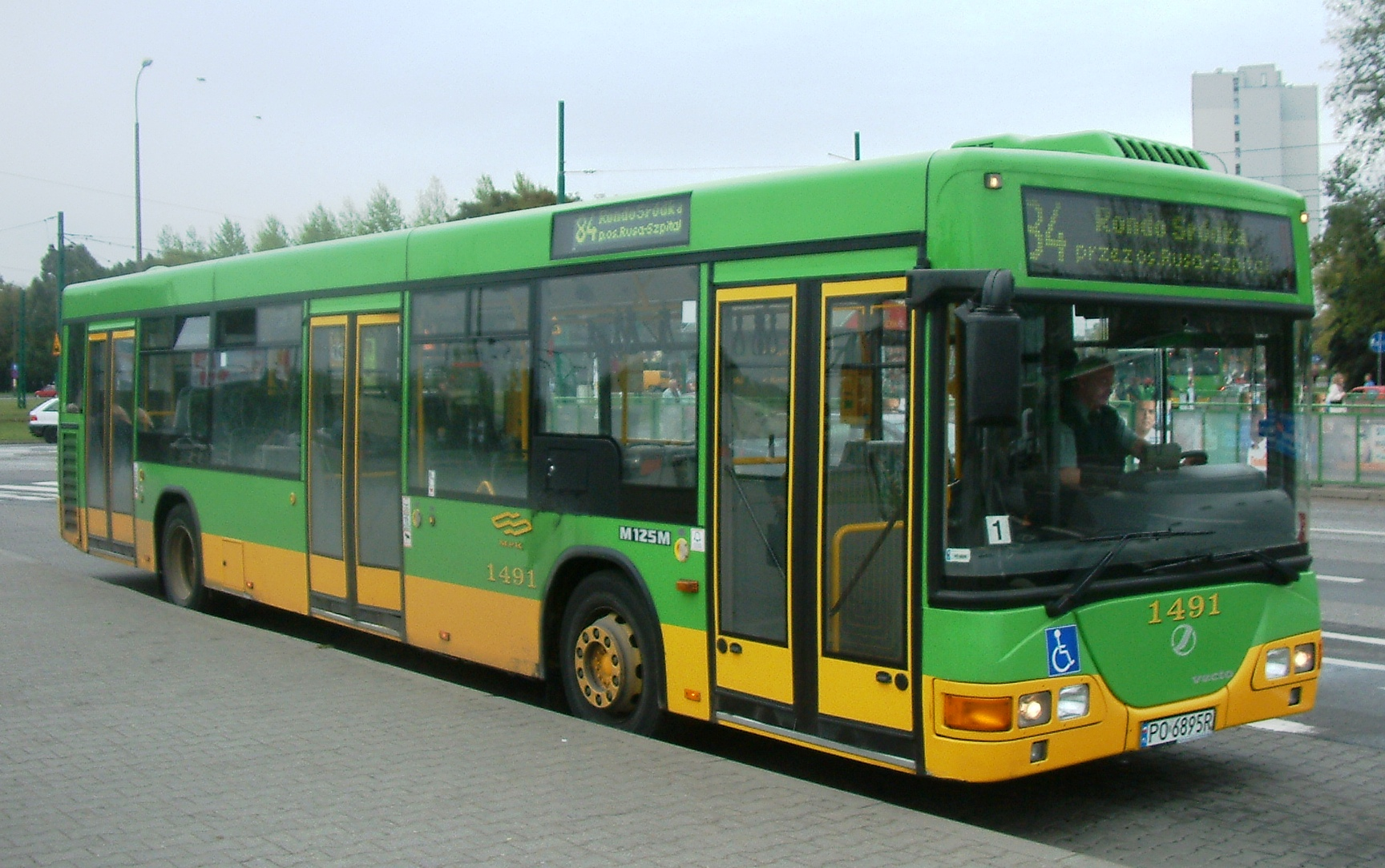 Jelcz M125M Vecto bus (#1491, reg. PO 6895R) in Poznań, Poland. Built 2004, MPK Poznań operator.